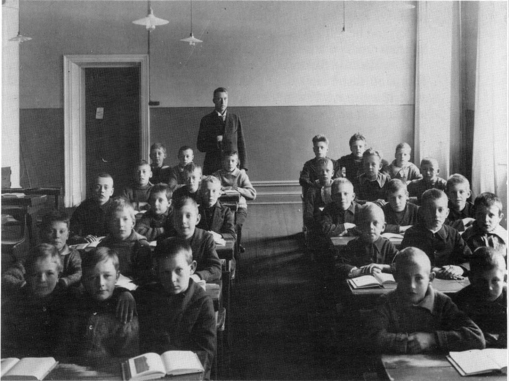 The schools in Norrköping were for a long time separated between the boys and the girls. This photo shows a class of boys at the Kristinaskolan in 1922. The name of the teacher is Torsten Westberg.